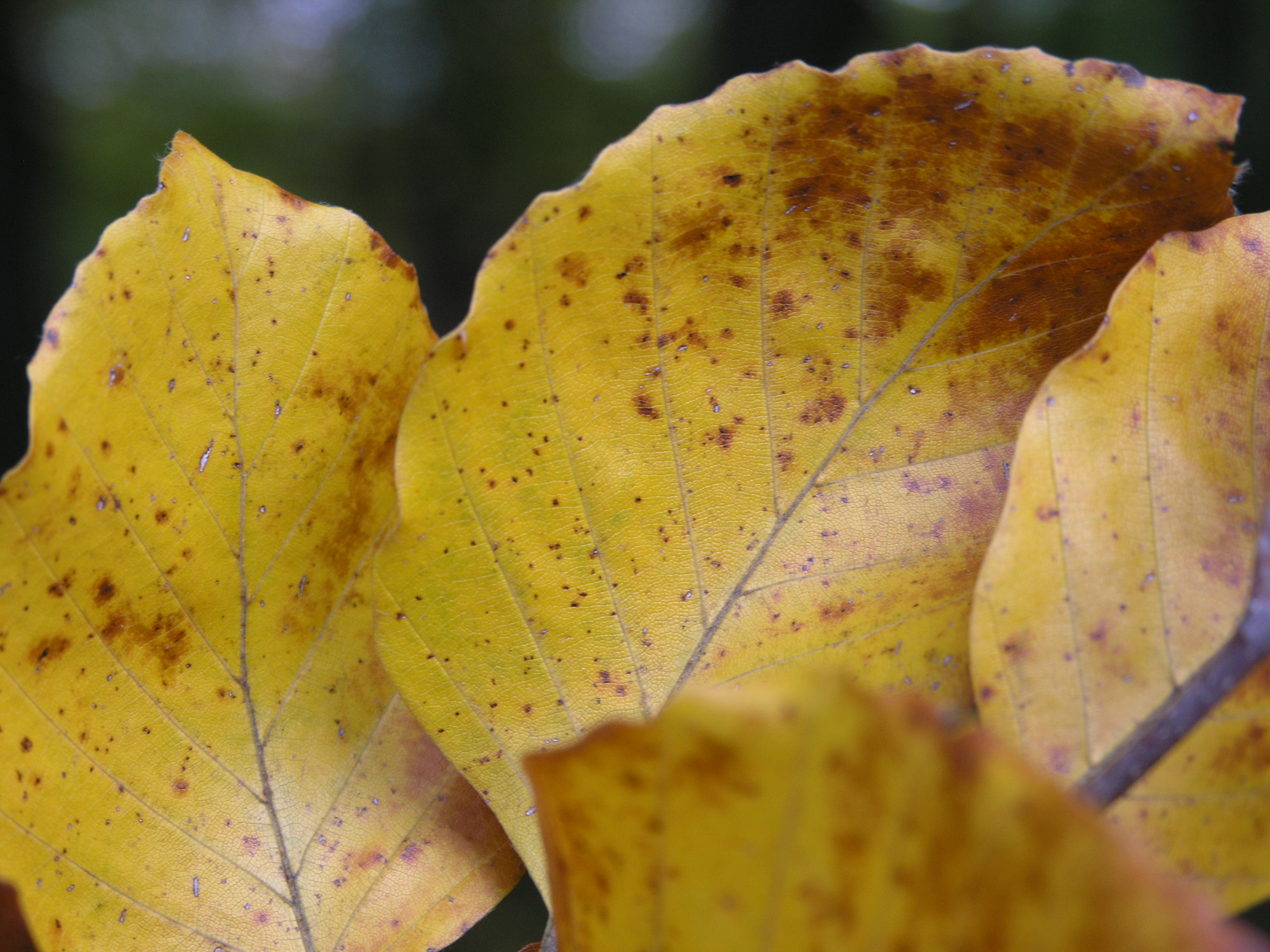 Leafs in autum